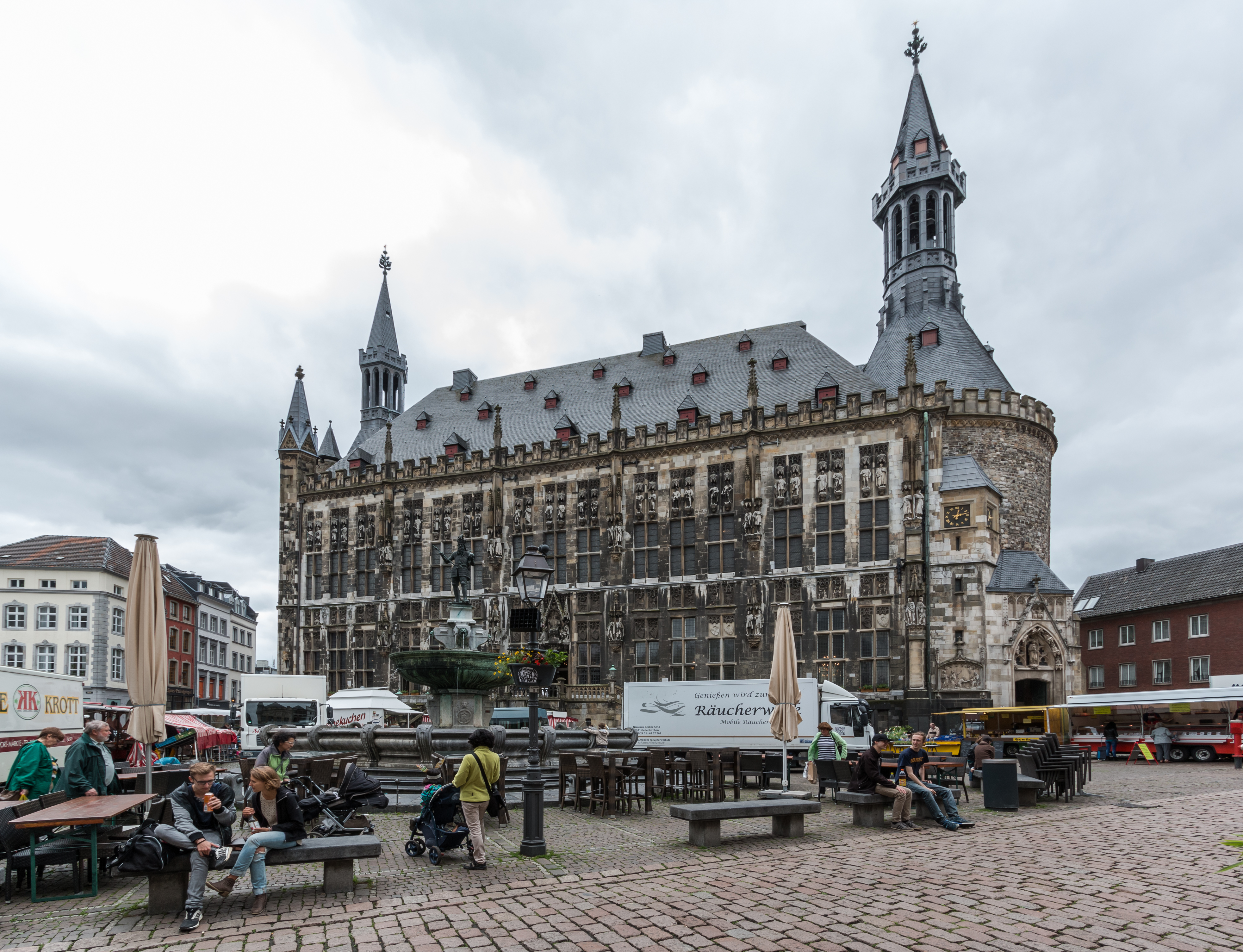 City Hall in Aachen, North Rhine-Westphalia, Germany This image shows a heritage building in Germany, located in the North Rhine-Westphalian city Aachen. This image shows a heritage building in Germany, located in the North Rhine-Westphalian city Aachen (no. 0002).